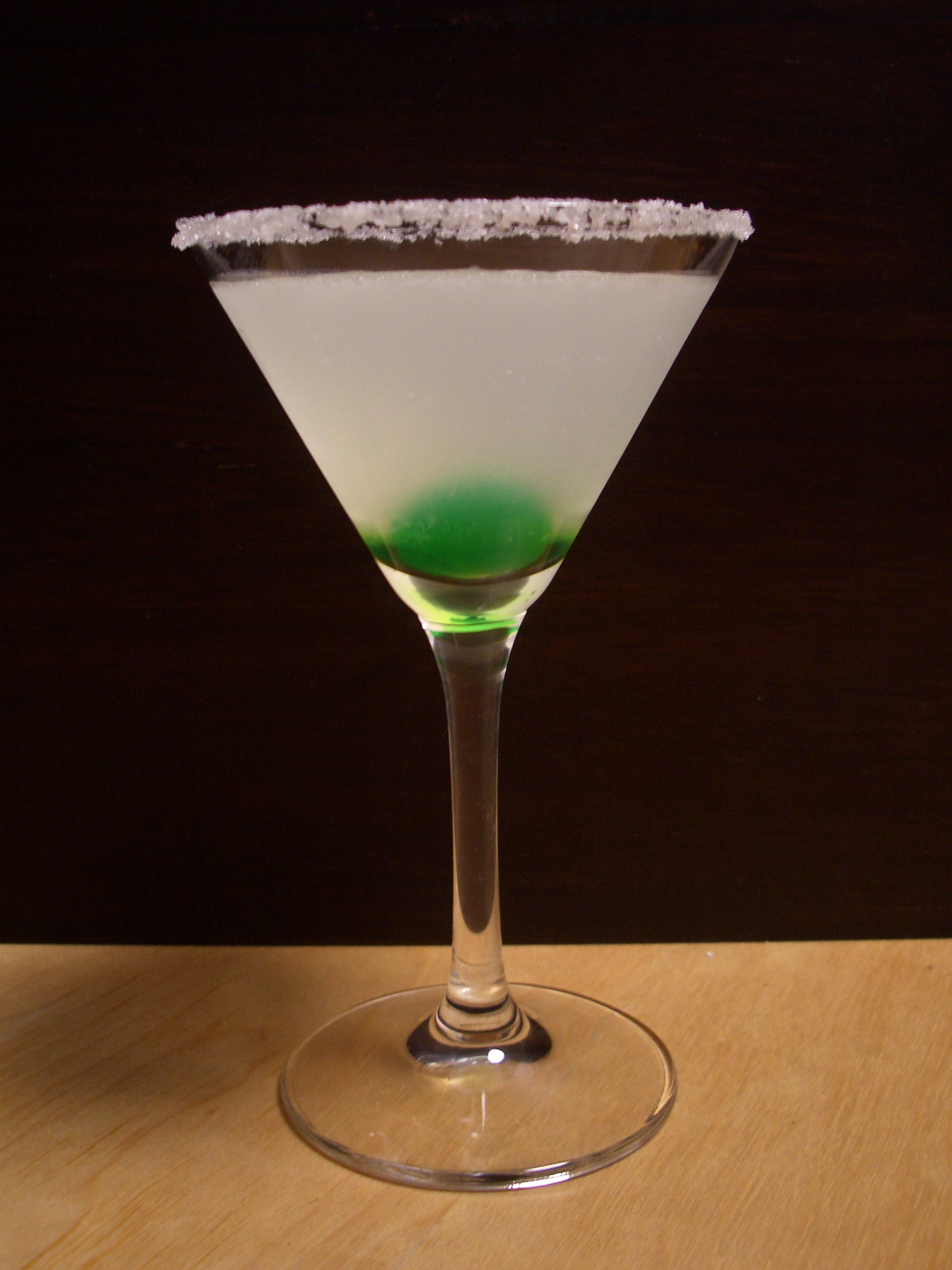 Yukiguni(Gilbey's vodka 40ml, Bols triple sec 10ml, fresh lime juice 10ml, sugar snow, and a mint cherry)